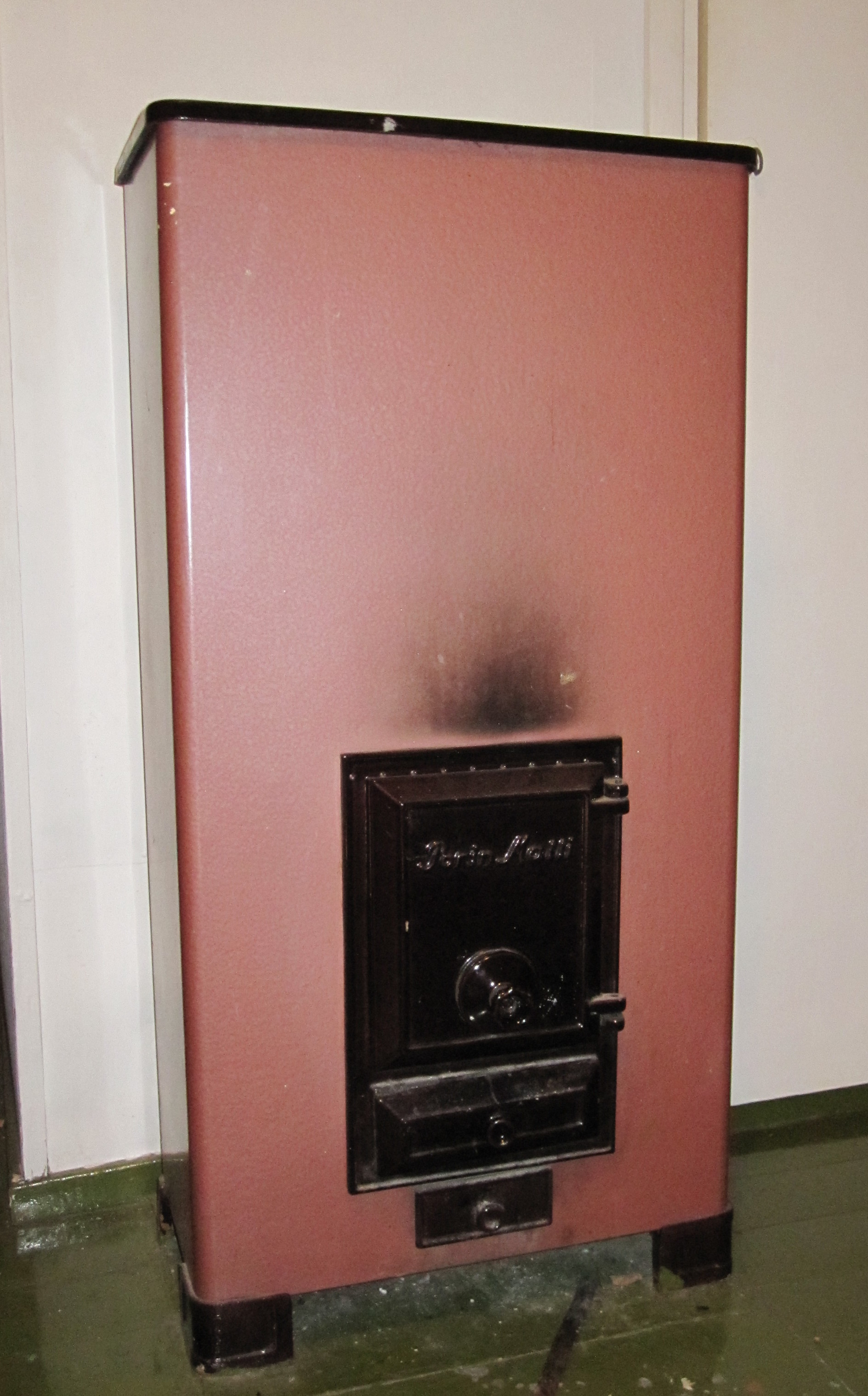 Porin Matti fireplace